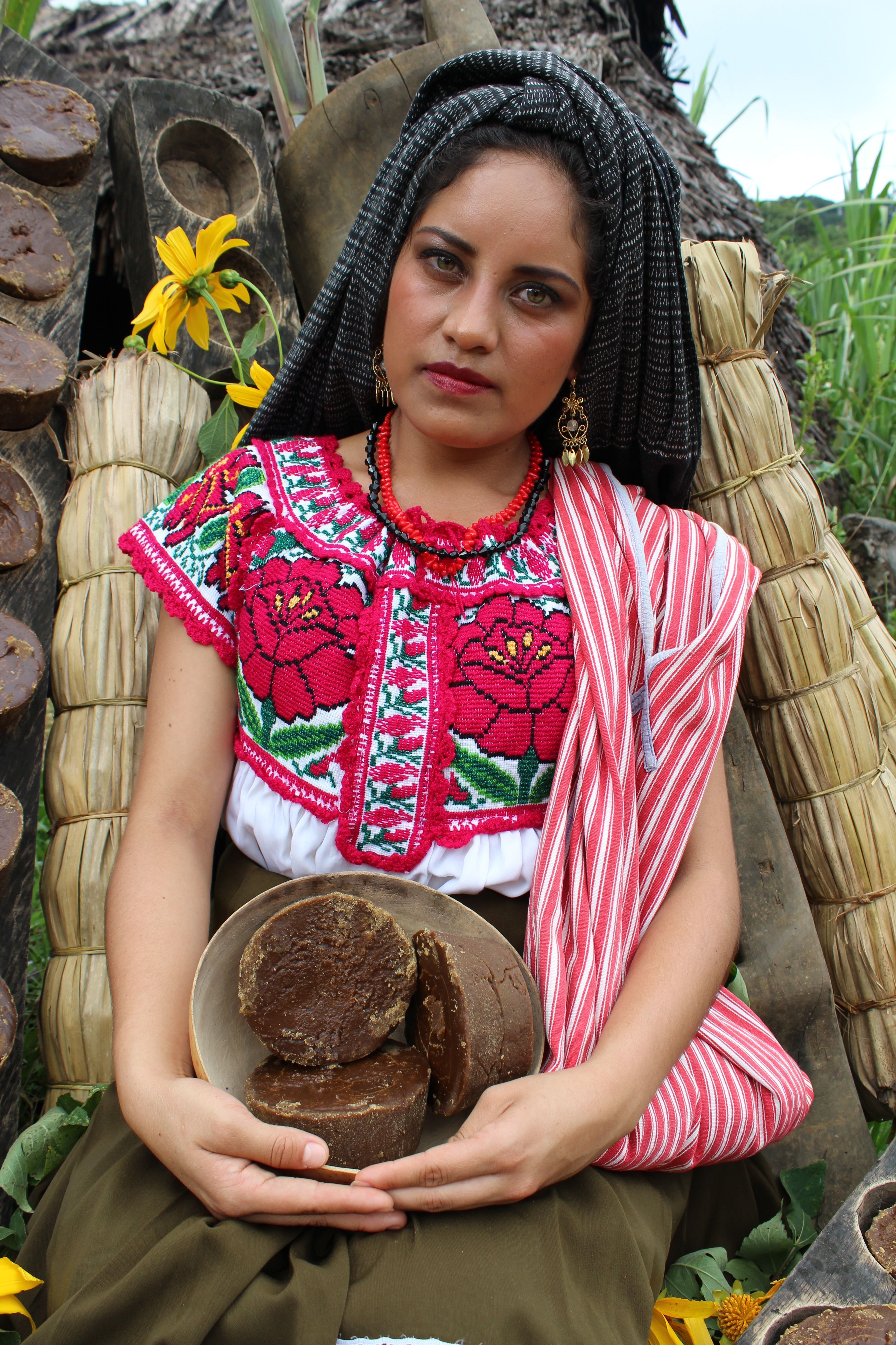 Woman from Mexico.